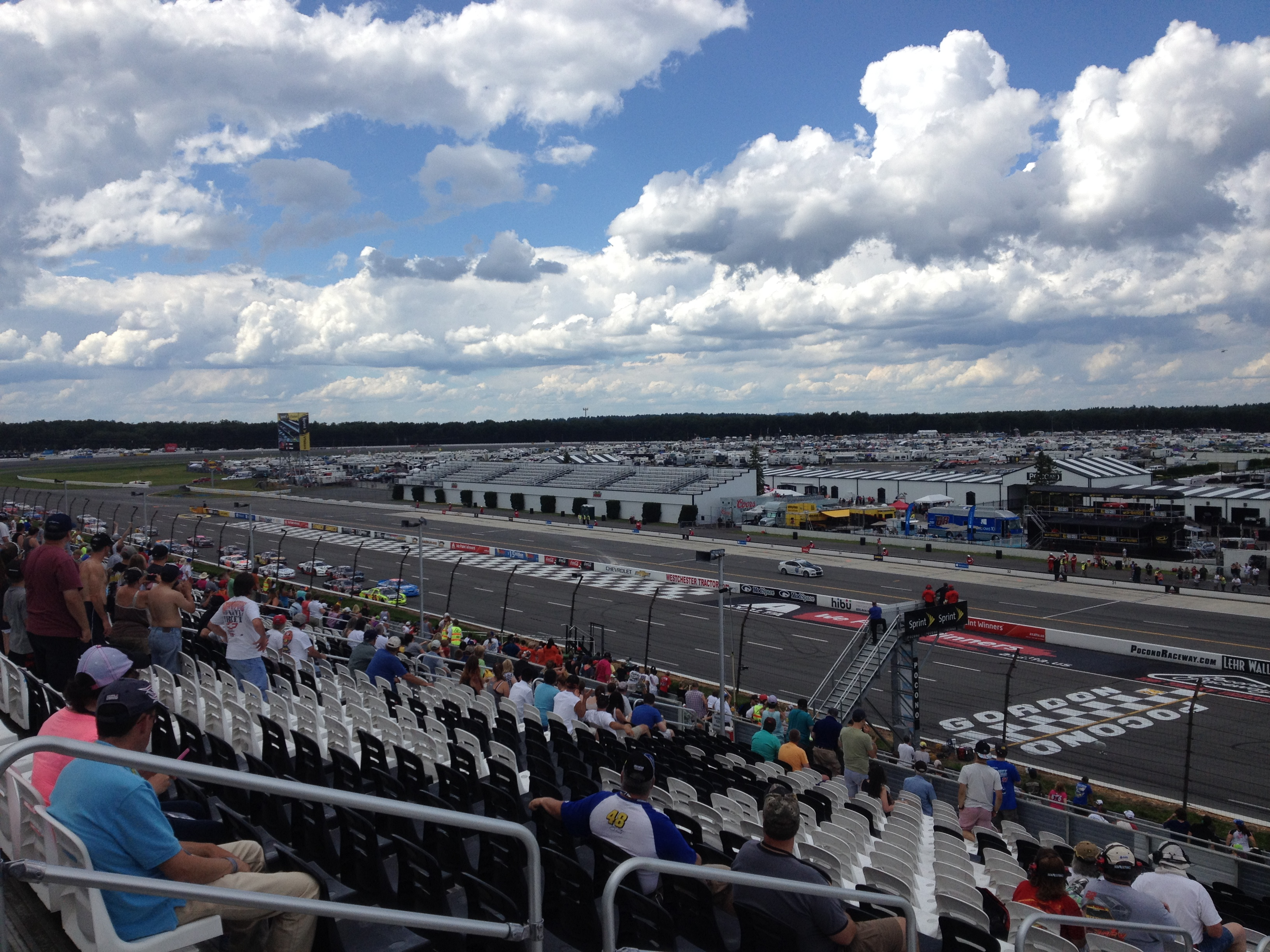 The 2015 ModSpace 125 ARCA race at Pocono Raceway viewed from the start/finish line